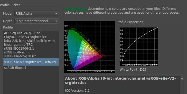 Krita's color space loader.